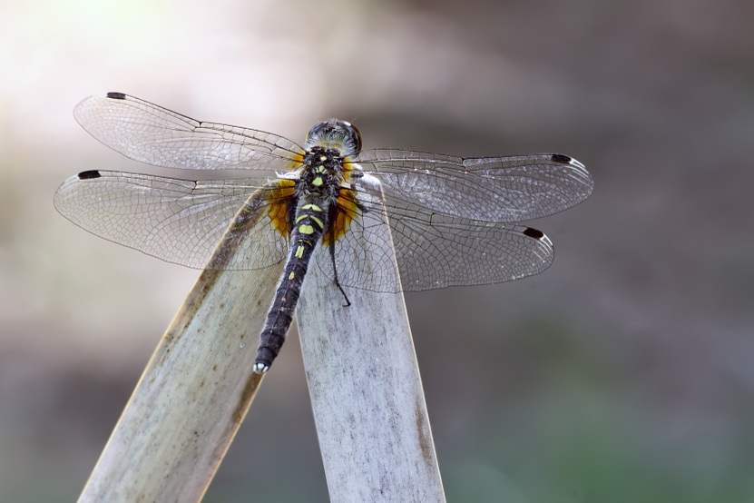 Dark Whiteface or Eastern White-faced Darter, female - Brandenburg/Germany